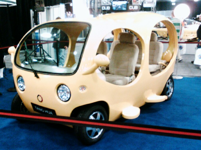 Chinese-designed electric amphibious car at NAIAS 2008. This was kind of a funny booth - the designer was there, a middle-aged friendly Chinese man who didn't speak English that well but offered us Chinese wine. I didn't take any, but my uncle said it was pretty good.